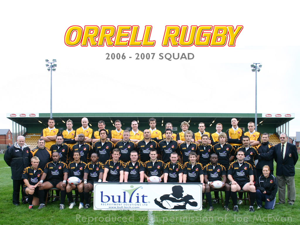 Orrell's final professional set-up